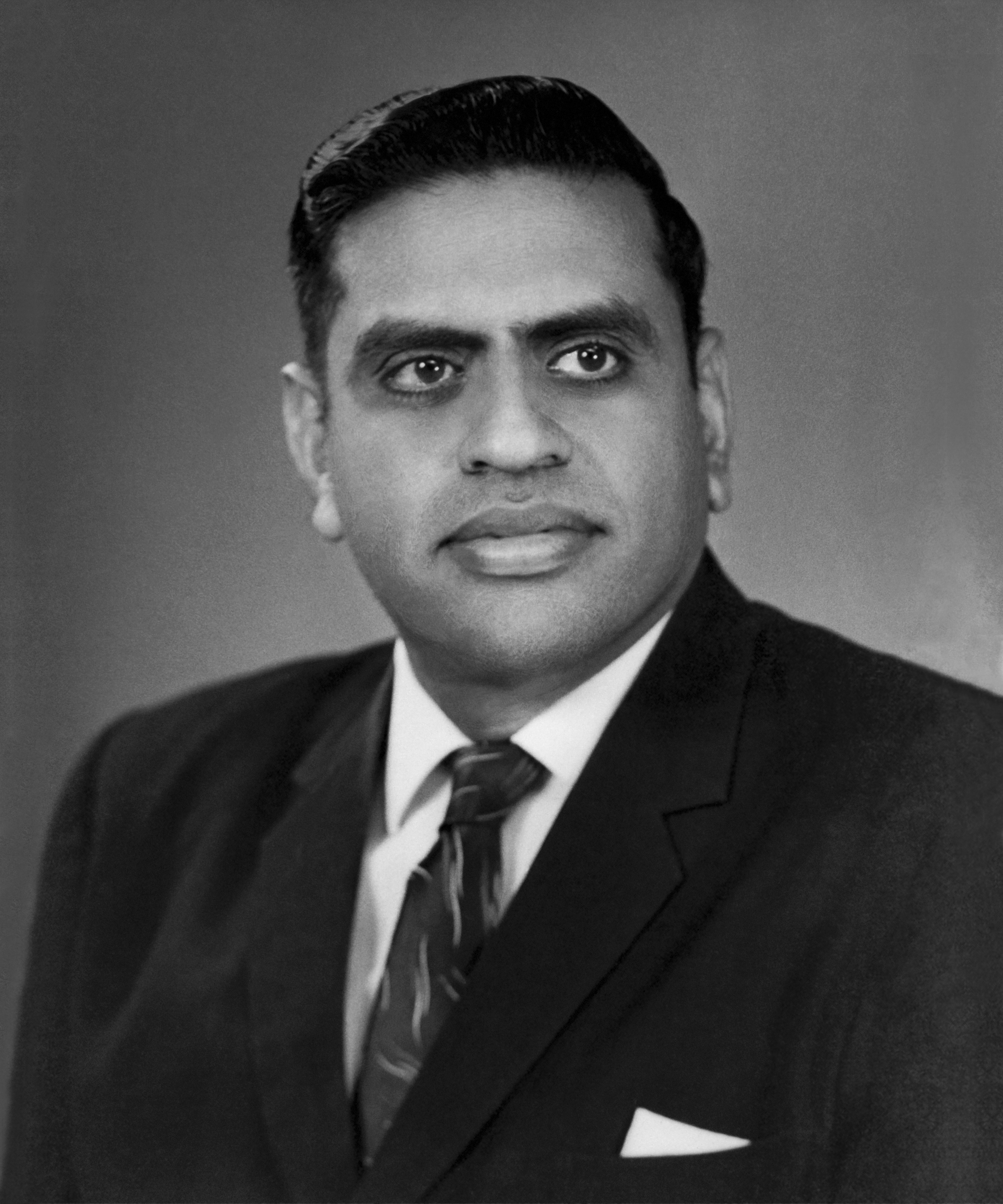 Picture taken in 1959 after his return from the Institute for Advanced Study in Princeton